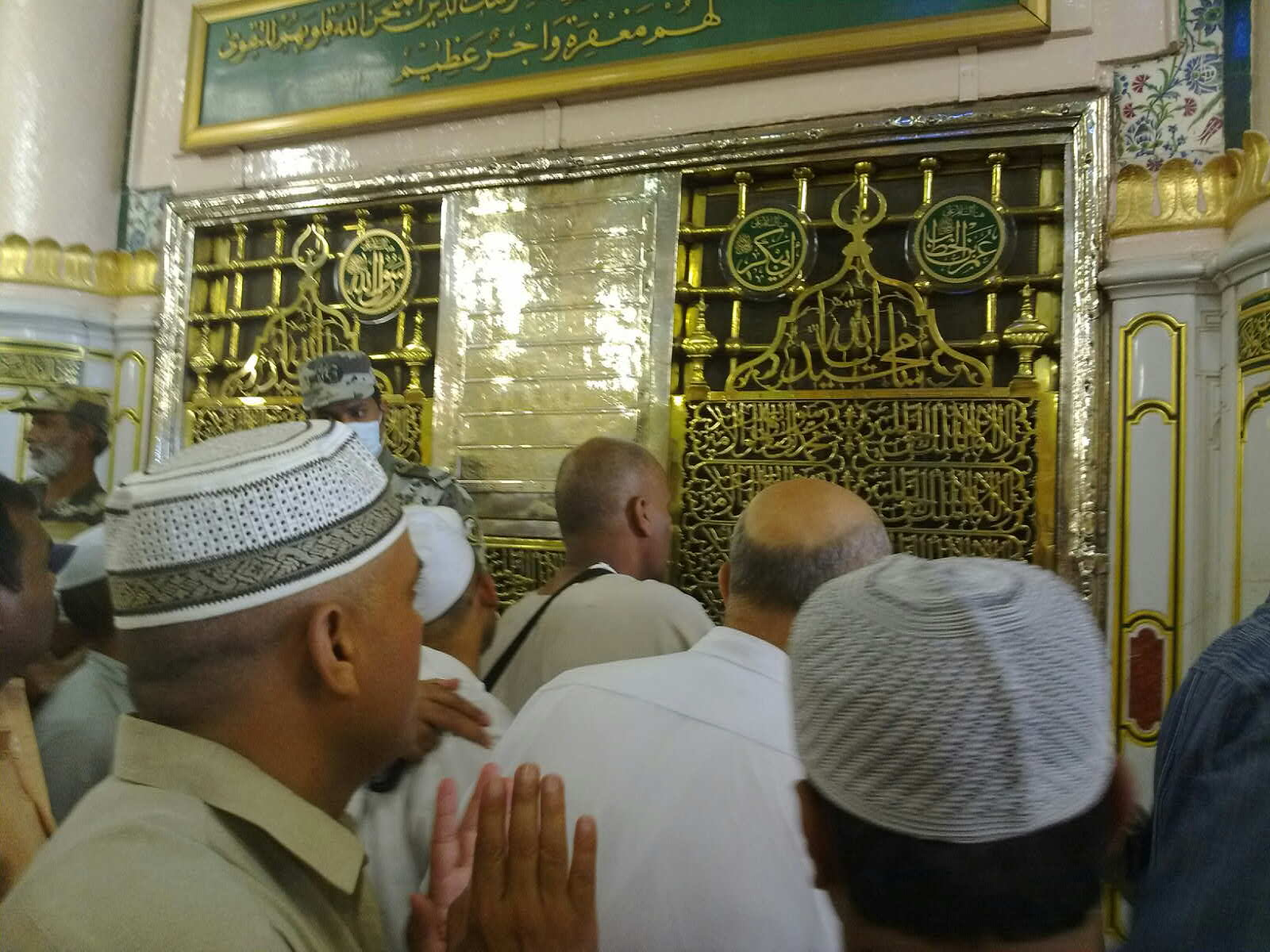 Muslims stop to offer grettings at the grave of the Islamic prophet Muhammad in Medina's Masjid Al-Nabawi.